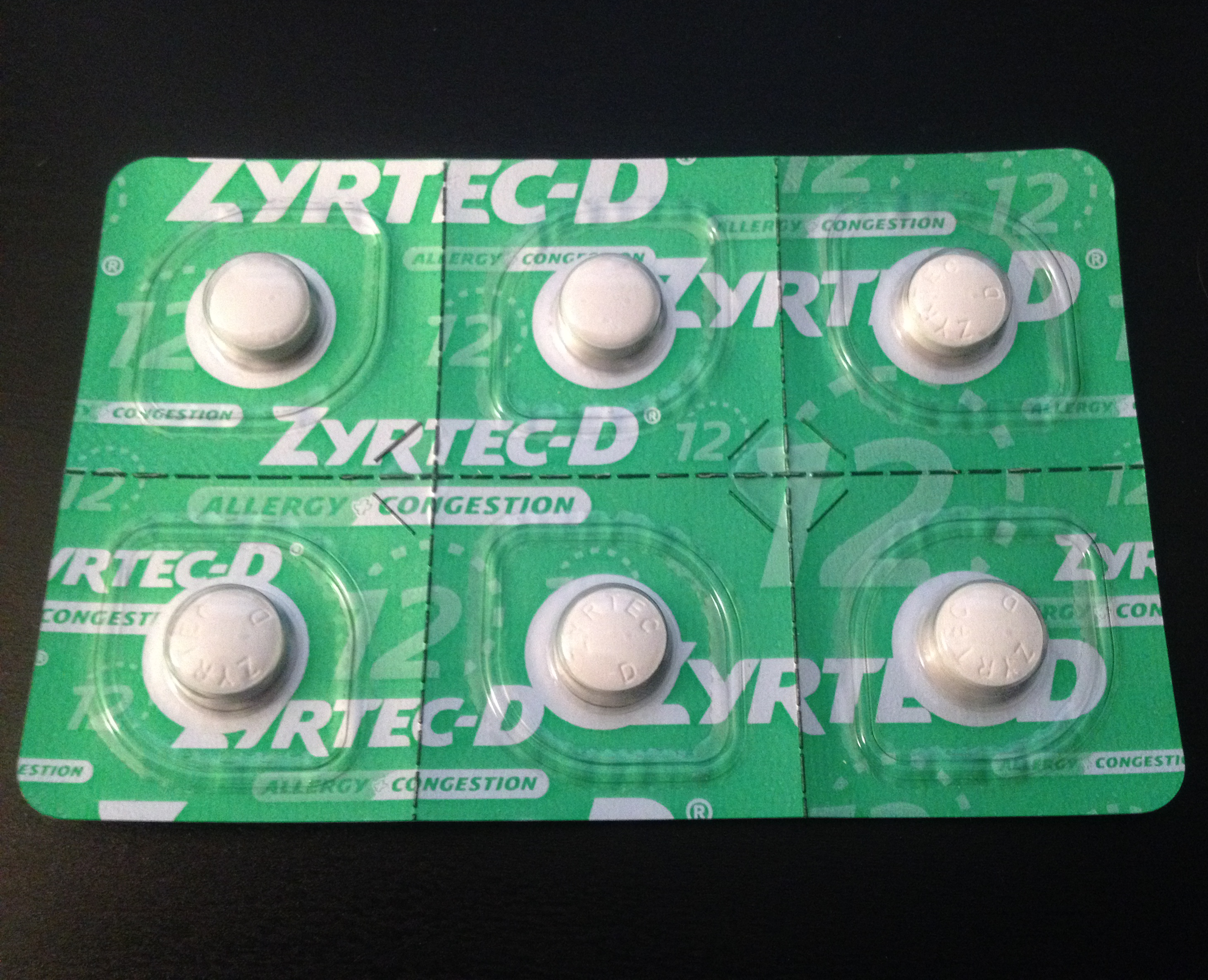 A blister pack of Zyrtec-D (cetirizine/pseudoephedrine) purchased in the United States during 2014. These are the "12 hour extended release tablets", each containing 5mg cetirizine and 120mg pseudoephedrine. Zyrtec-D is the original brand name used to promote the cetirizine/pseudoephedrine combination, and was approved in 2007 as an over-the-counter combination antihistamine/decongestant allergy drug.